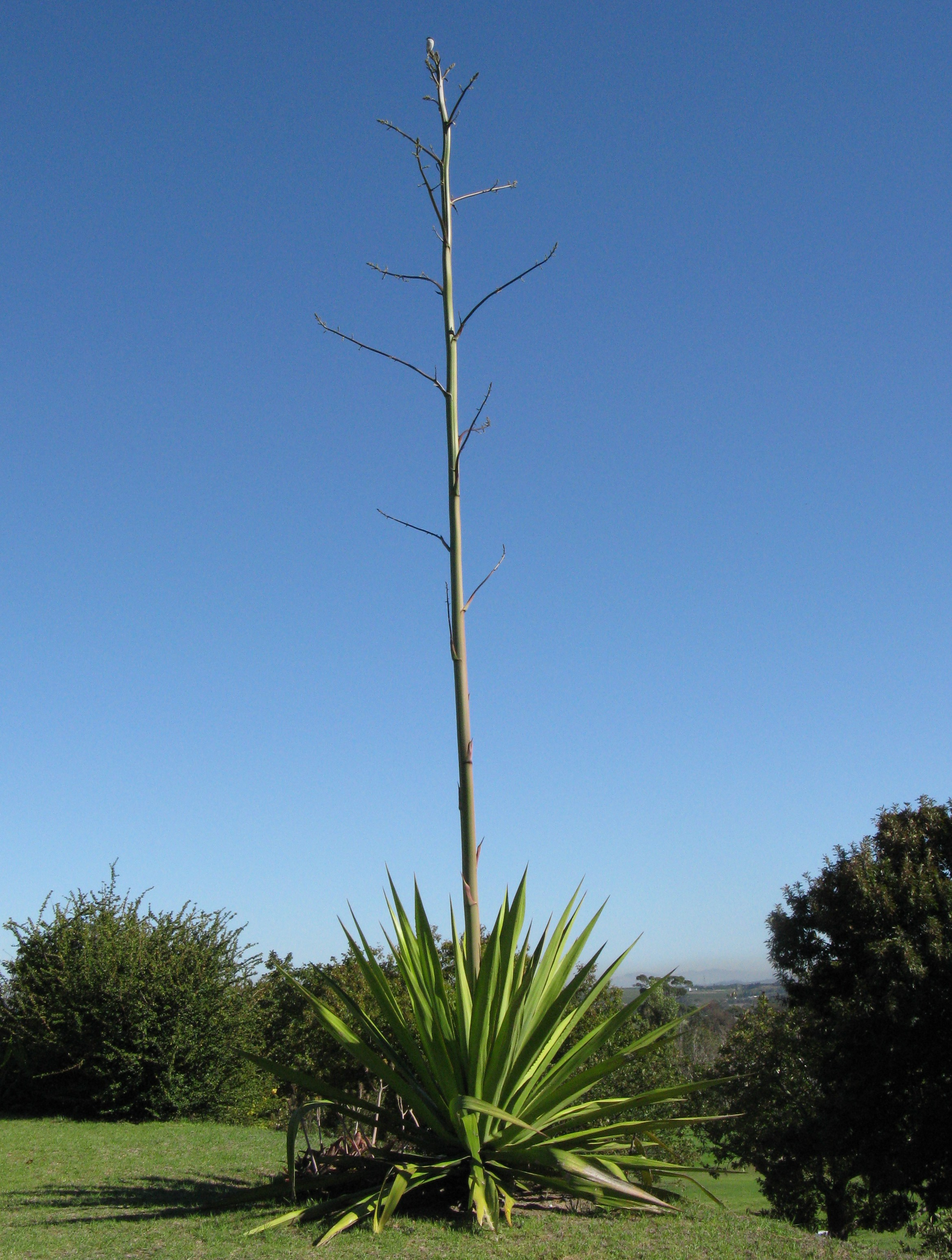 Agave with inflorescence growing rapidly, illustrating features such as bracts on stem nodes, which is distinct from a smooth scape.